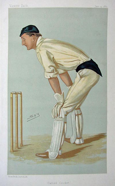 Caricature of Hylton ("Punch") Philipson (1866-1935). Caption read "Oxford Cricket".